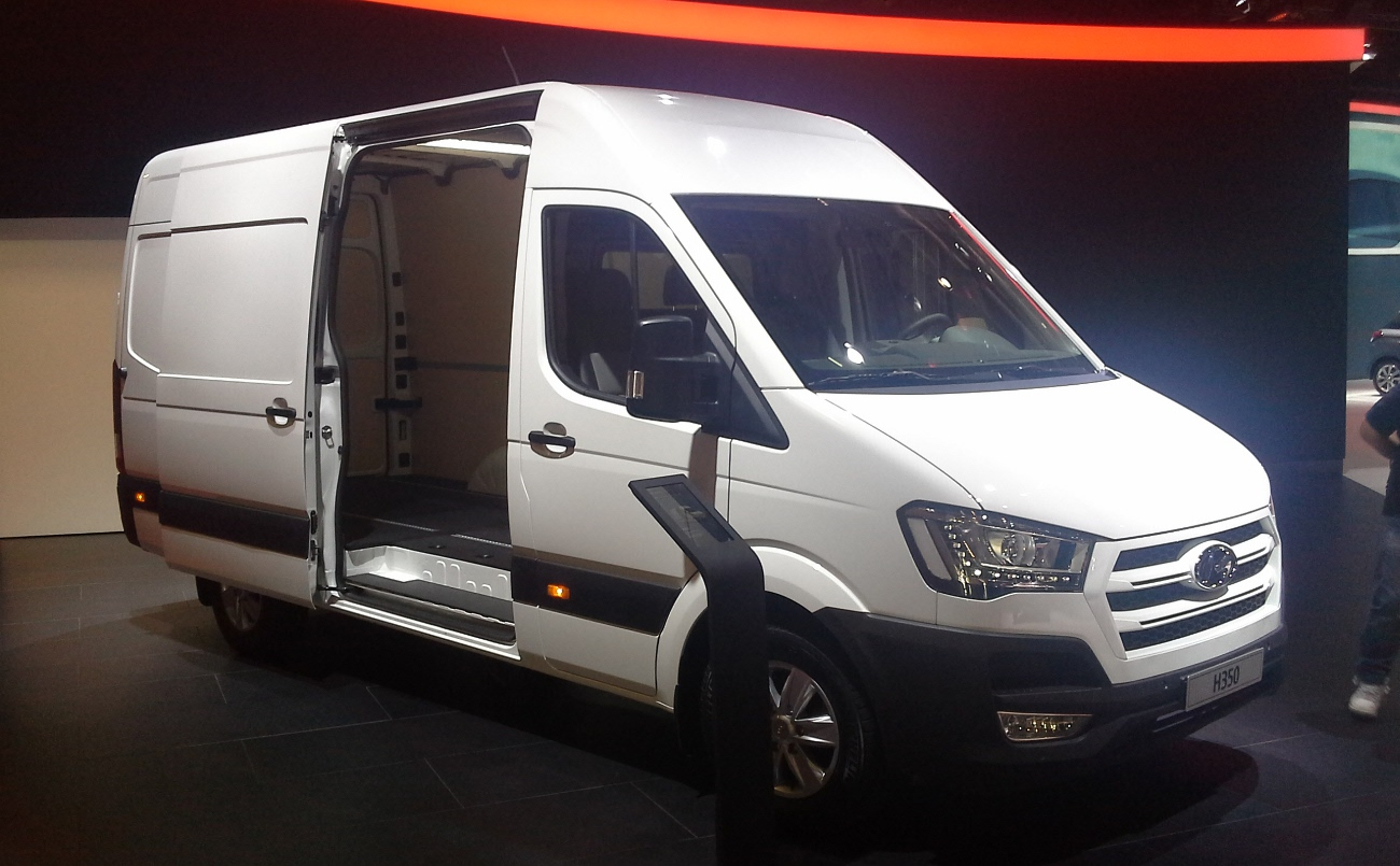 Hyundai H350 photographed at the Mondial de l'Automobile 2014 in Paris, France.